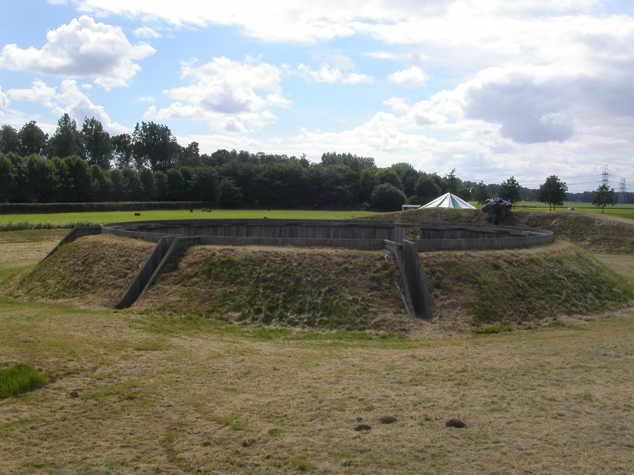 Observatorium Robert Morris zomer 2004 The Netherlands